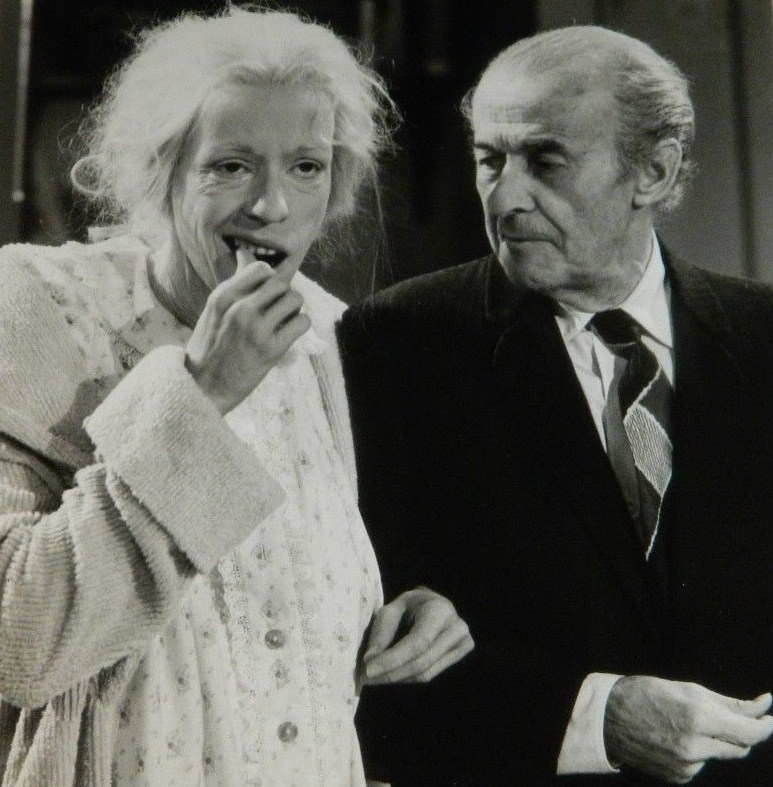 Carol Burnett & Liam Dunn in the TV movie Twigs - publicity still (cropped)